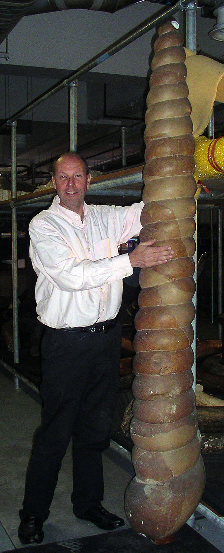 Photograph of model of Dinocochlea ingens with Paul D. Taylor for scale.